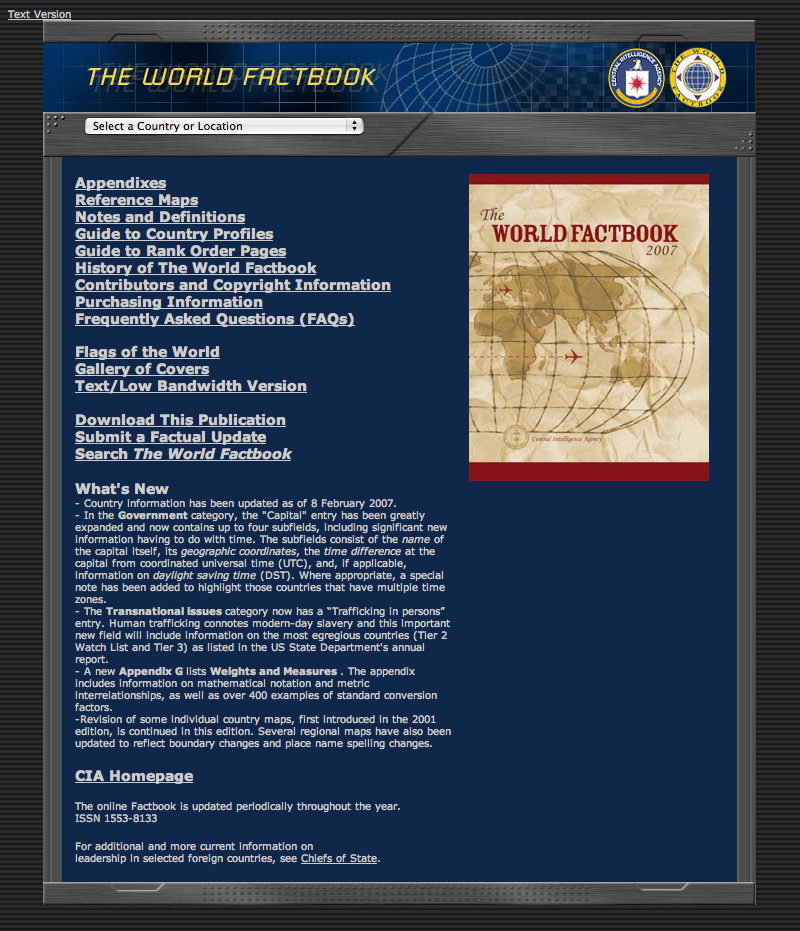 The CIA World Factbook website,[1] taken on en:2007-en:02-17 using Paparazzi! to replace Image:WorldFactbook.jpg.